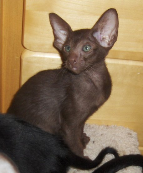 Photo of an Oriental Shorthair cat